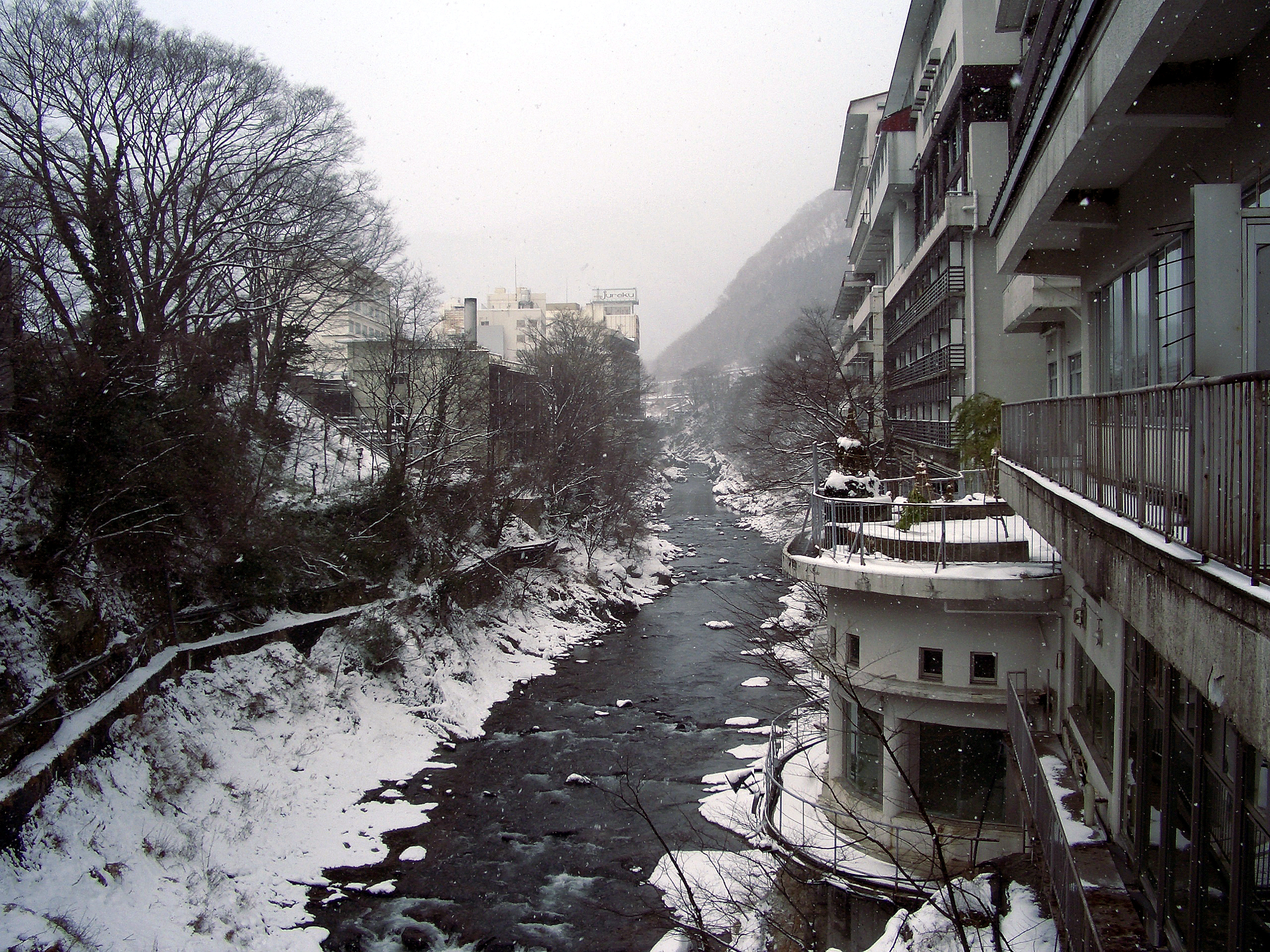 Minakami Onsen in Gunma, Japan.